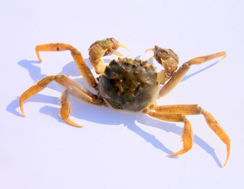 Crab in white